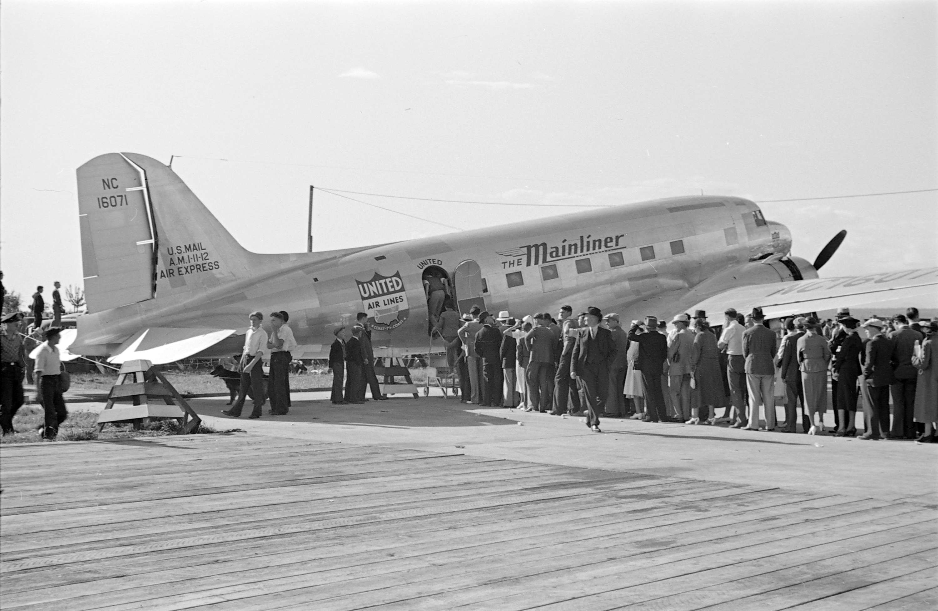 DC-3A NC 16071 of United Air Lines at Vancouver airport. Original caption: People lined up to board a United Airlines U.S. Mail Air Express (NC 16071) "The Mainliner"